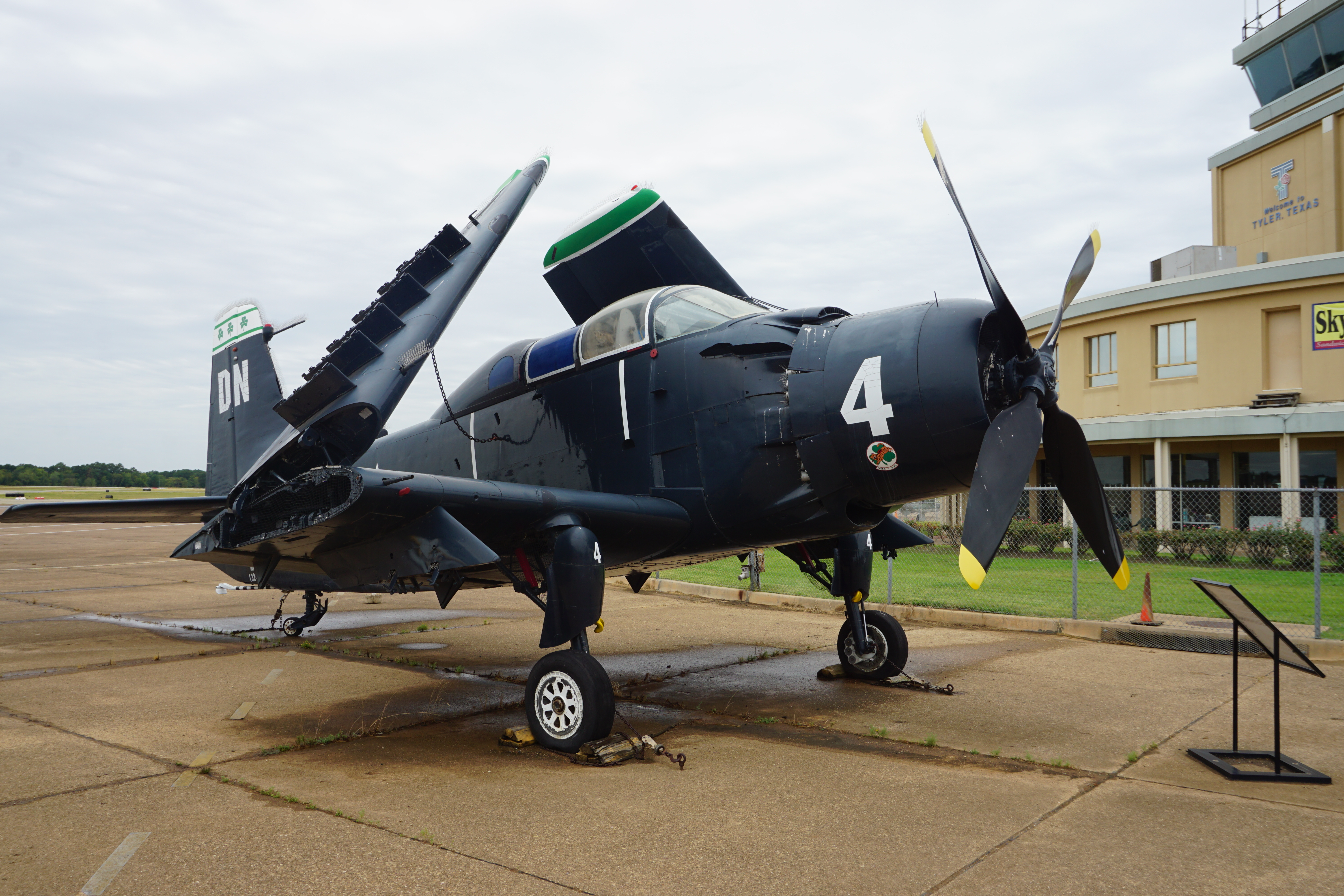 A Douglas AD-5 Skyraider on display at the Historic Aviation Memorial Museum at Tyler Pounds Regional Airport near Tyler, Texas (United States).